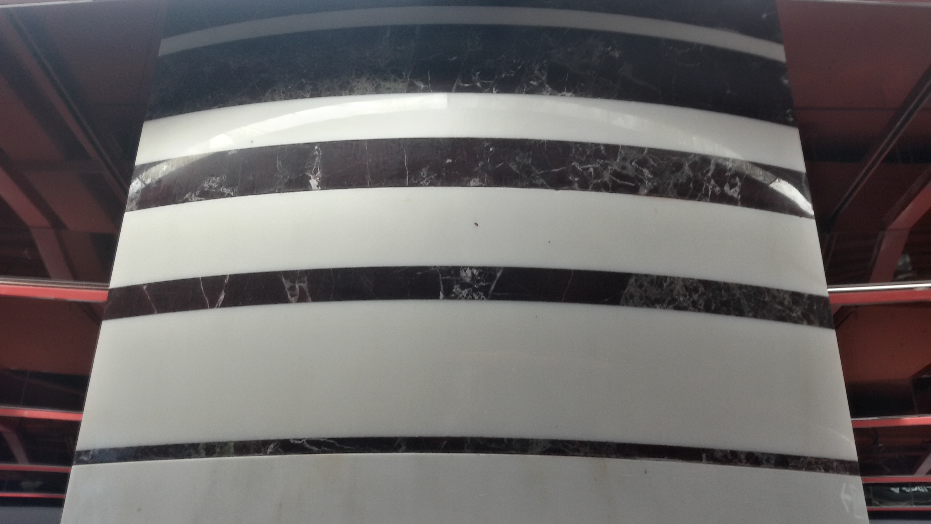 Decoration on the pillar at Nanhai God Temple Station in Guangzhou Metro.